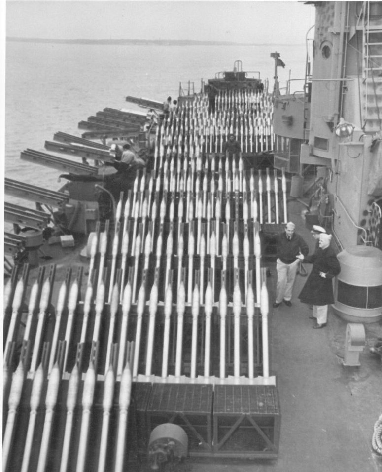 Upper deck of USS LSM(R)-188 (Landing Ship Medium (Rocket))